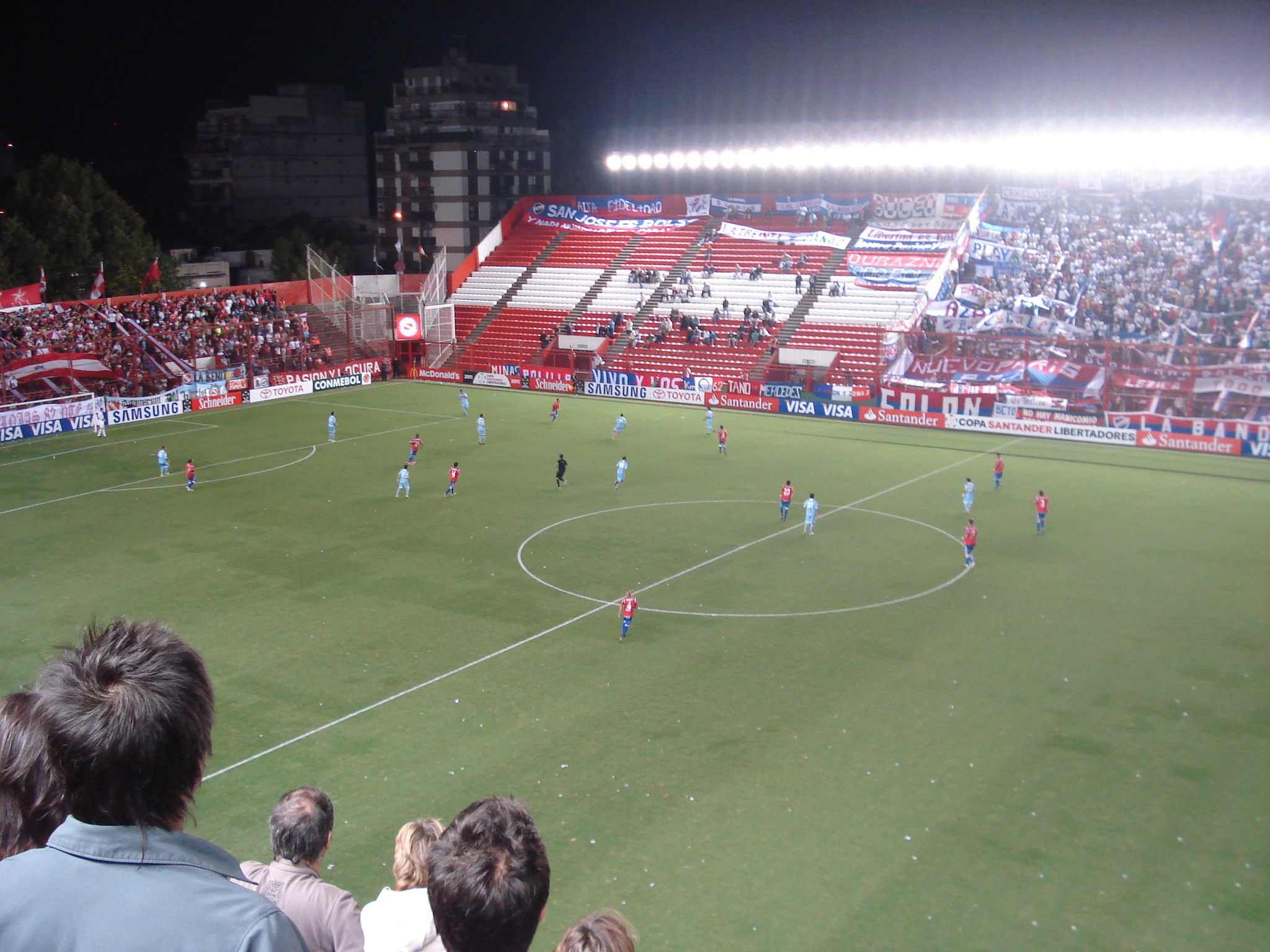 Estadio Diego Armando Maradona in Buenos Aires, Argentina